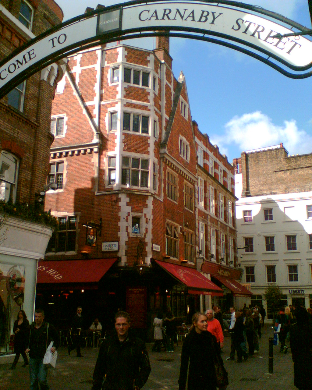 The Shakespeare's Head on Carnaby Street in London, March 2007 Fluffball70 19:43, 9 March 2007 (UTC)